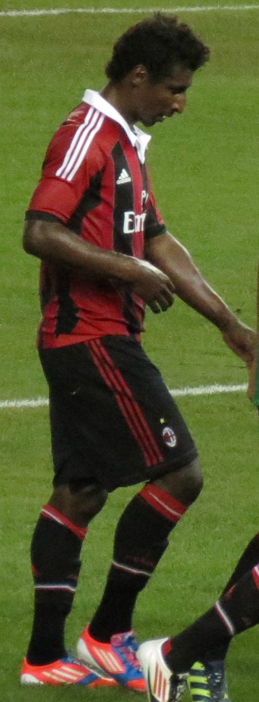 Kévin Constant of A.C. Milan in action for A.C. Milan against Real Madrid in the 2012 World Football Challenge.